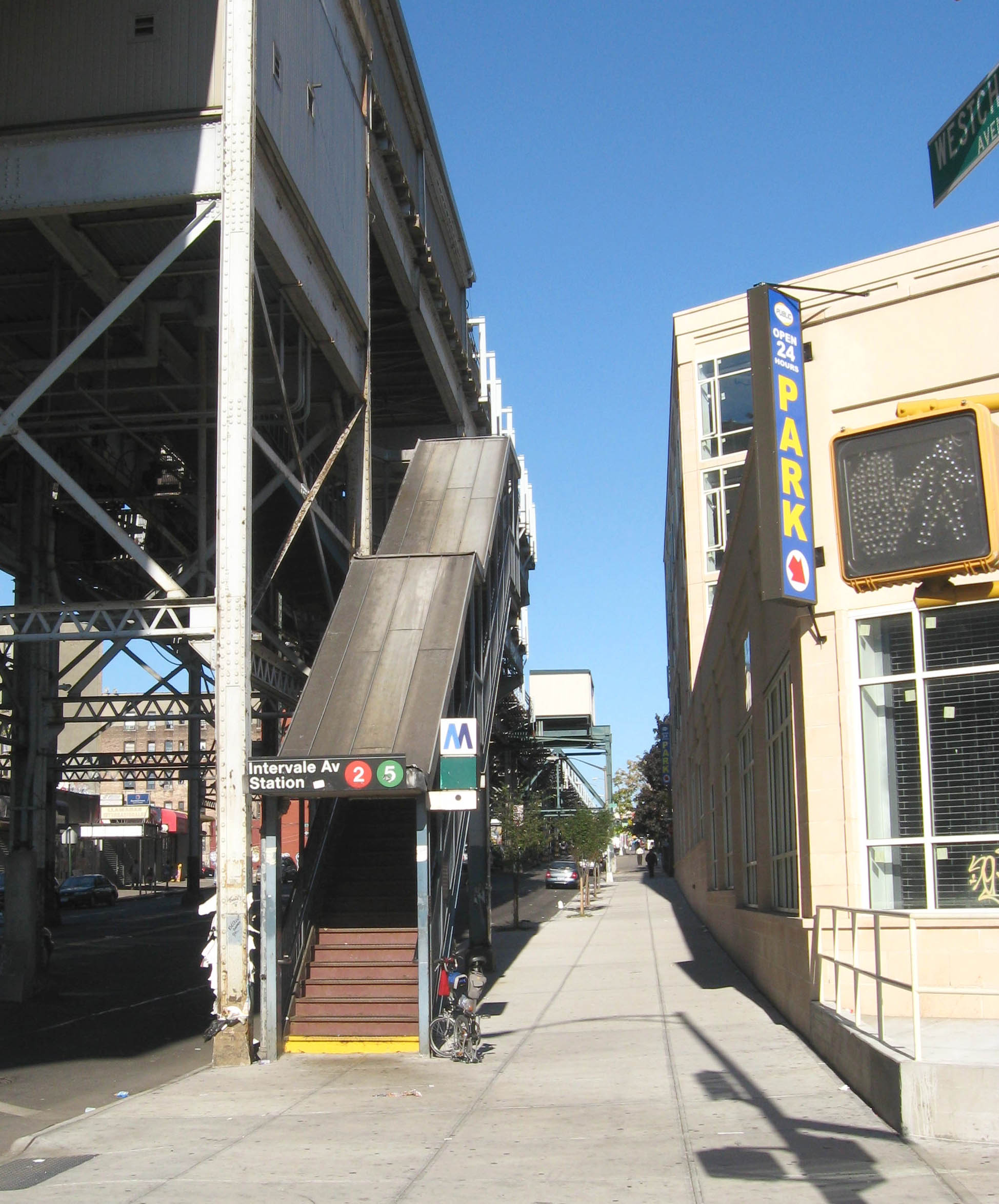 Looking northeast at southern street stair of Intervale Avenue (IRT White Plains Road Line) on a sunny early afternoon